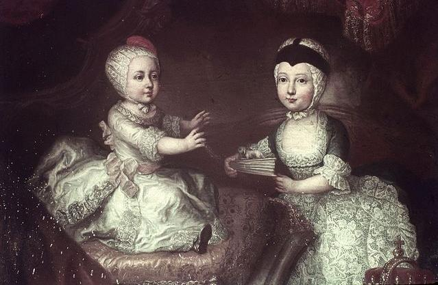 Portrait of Archduke Francis Joseph (future Duke of Modena) with Archduchess Maria Leopoldine (future Electress of Bavaria)